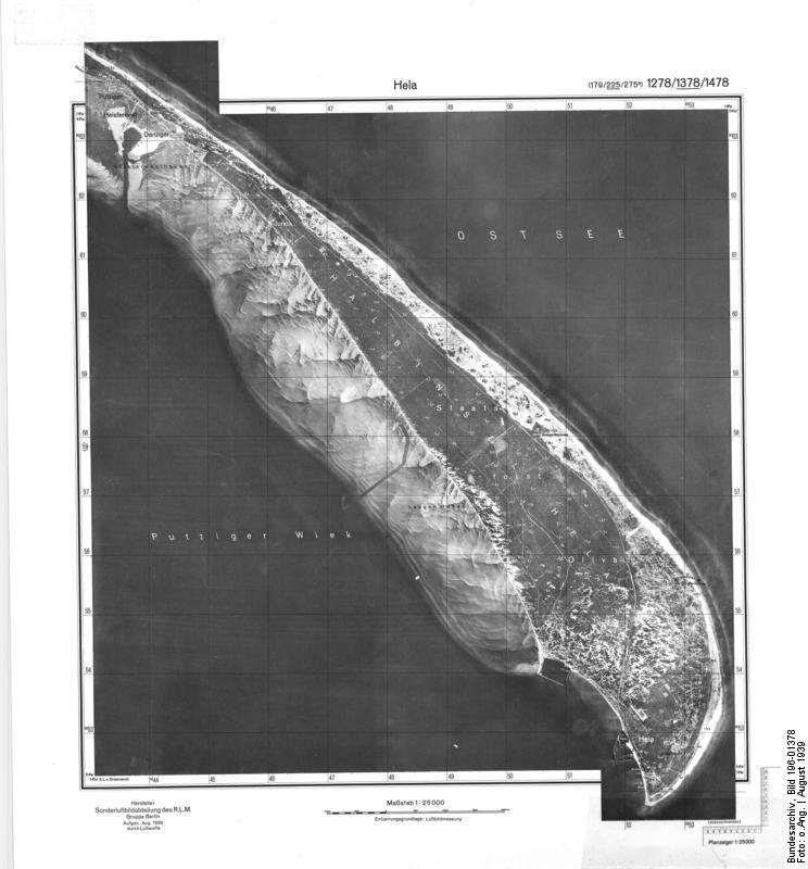 Hela Information added by Wikimedia users.